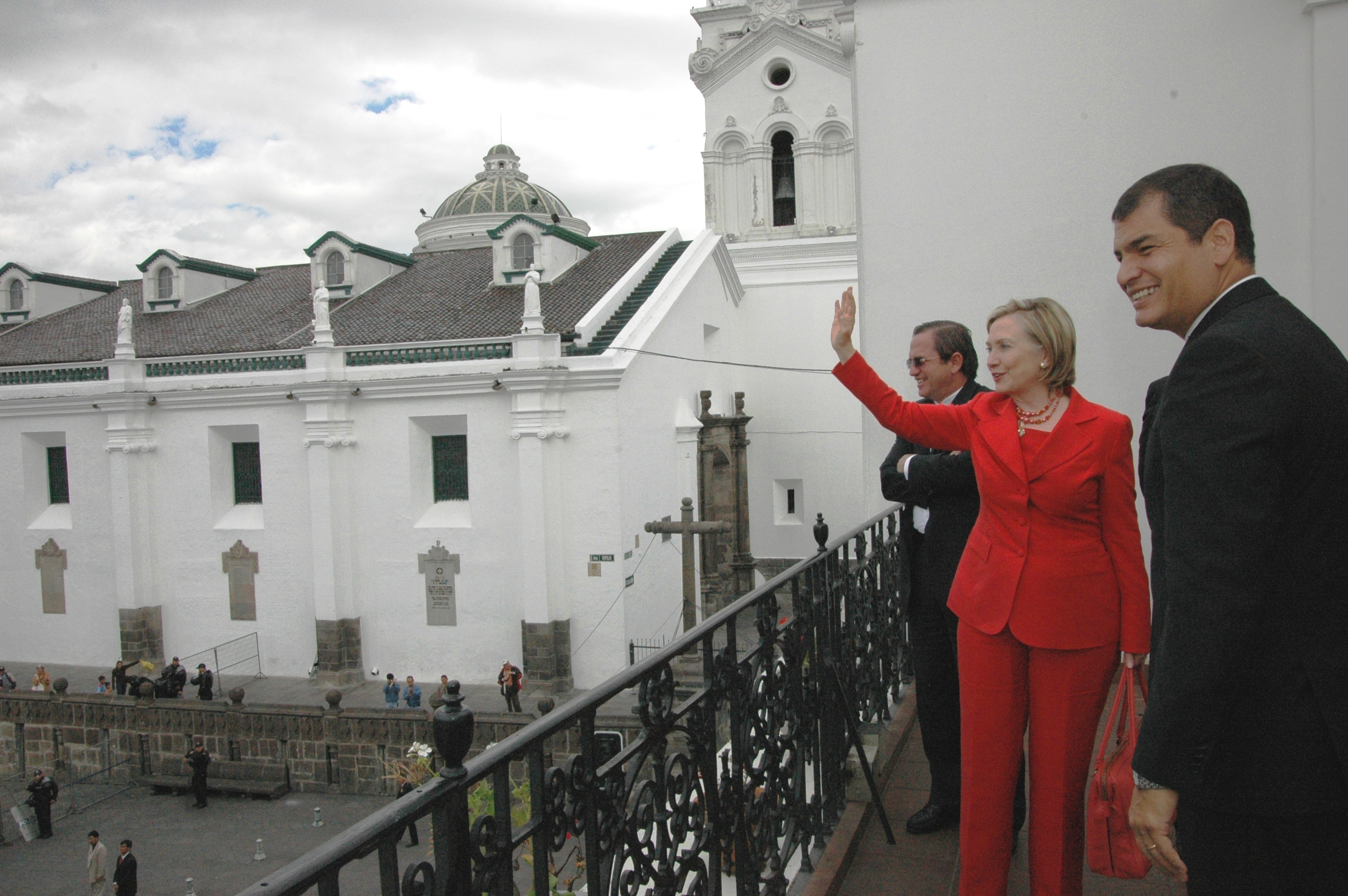 Ecuadorian Foreign Minister Patino, U.S. Secretary of State Hillary Rodham Clinton, and Ecuadorian President Correa look out over the balcony of Carondelet Palace onto Independence Square in the historic center of Quito, Ecaudor, on June 8, 2010. [State Department photo/ Public Domain]